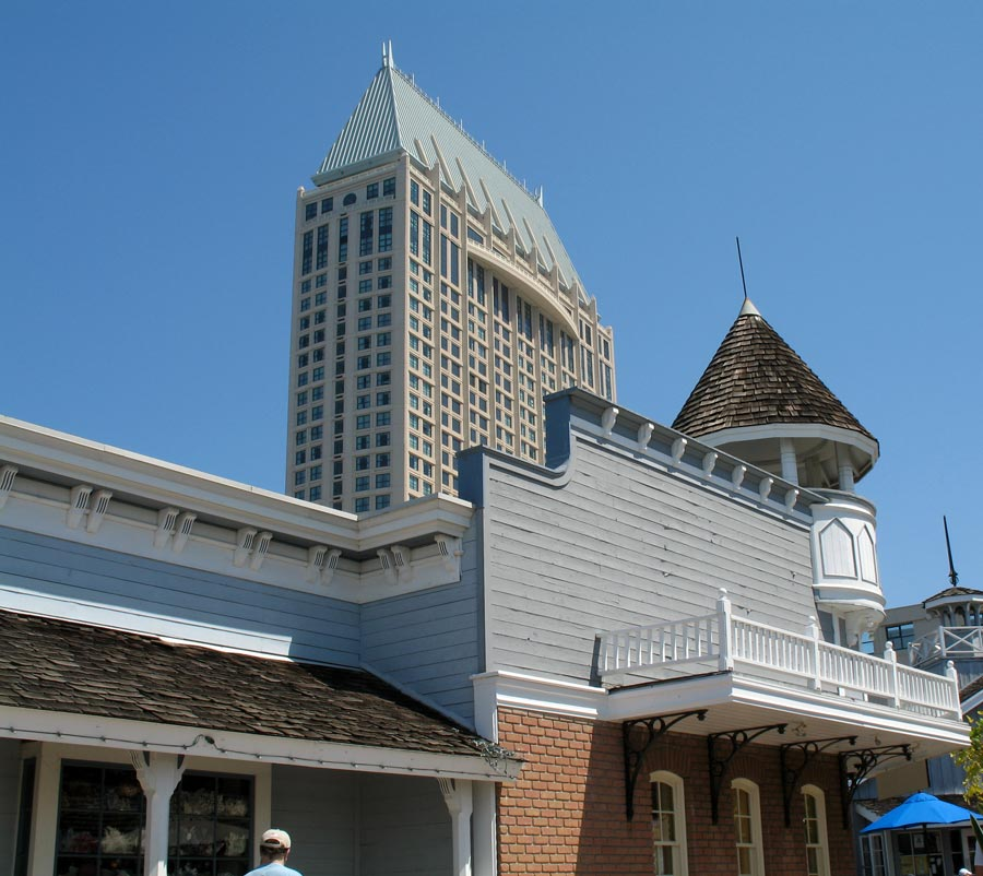 Grand Hyatt Hotel at Seaport Village, San Diego